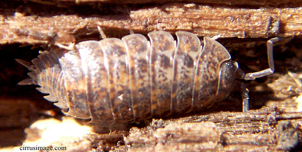 Trachelipus rathkii Location: Winfield IL USA